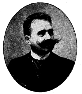 Portrait of Gösta Geijer from Project Runeberg